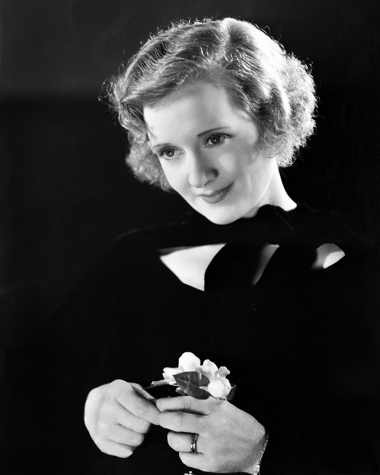 Promotional photograph of actor Billie Burke (1933)